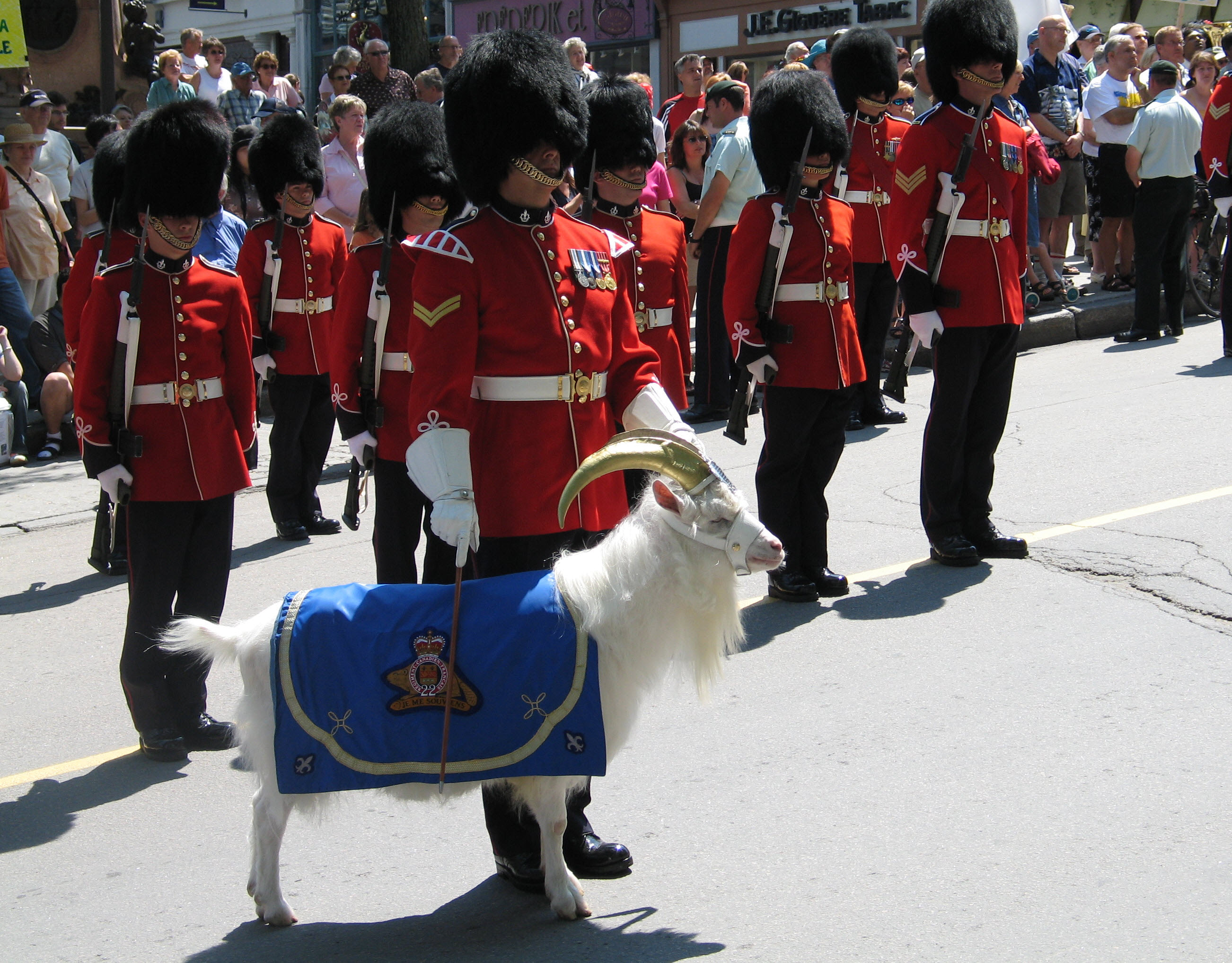 The mascot of the Royal 22e Régiment of the Canadian Forces, a goat named Batisse X, participates in the Freedom of the City ceremony in front of City Hall during the celebration commemorating the 398th anniversary of Quebec City, on July 3, 2006.